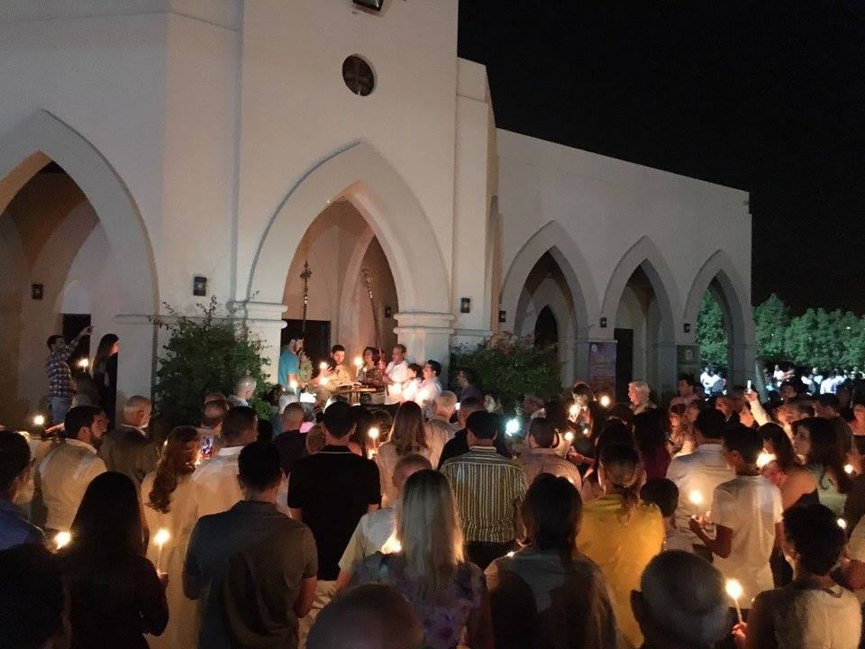 Easter celebration in Oman